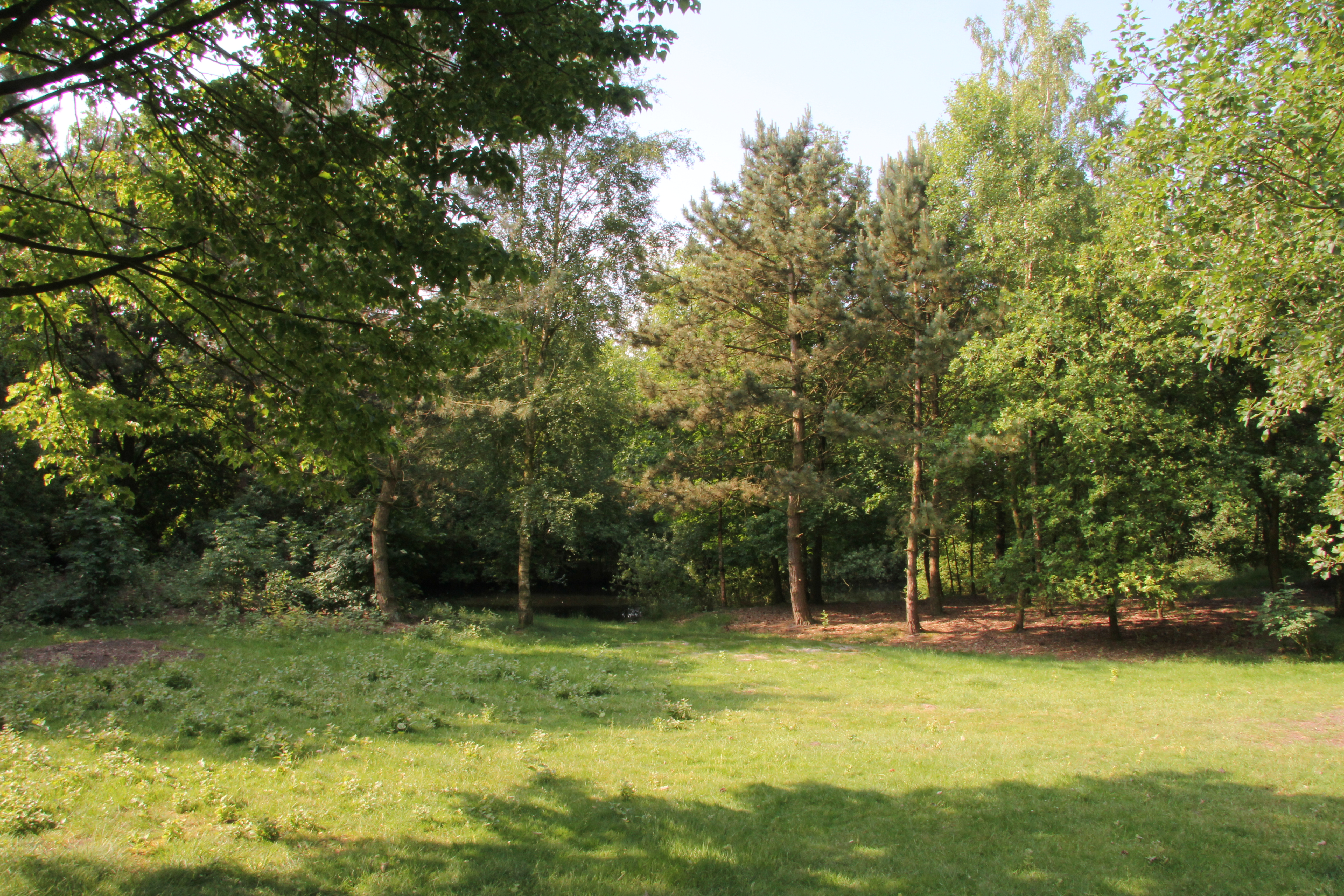 Centerparcs Het Meerdal, Blick aus Bungalow